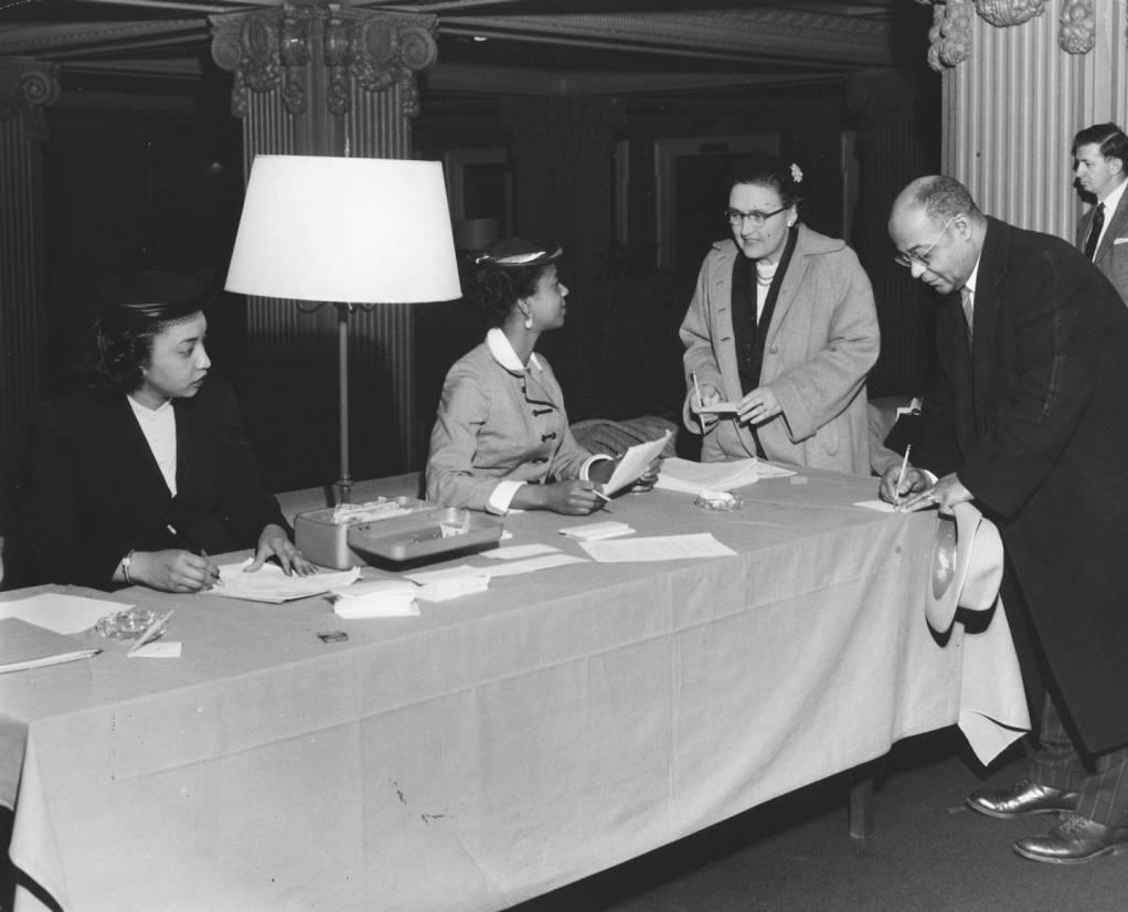 Original Collection: MSS - Urban League of Portland Image Description: Seated at the table are Gertrude Rae and Myrtle Carr. Wilbur Marshall is standing at the table. You can find this image by searching for the item number by clicking here. Want more? You can find more digital resources online. We're happy for you to share this digital image within the spirit of The Commons; however, certain restrictions on high quality reproductions of the original physical version may apply. To read more about what “no known restrictions” means, please visit the Special Collections & Archives website, or contact staff at the OSU Special Collections & Archives Research Center for details.